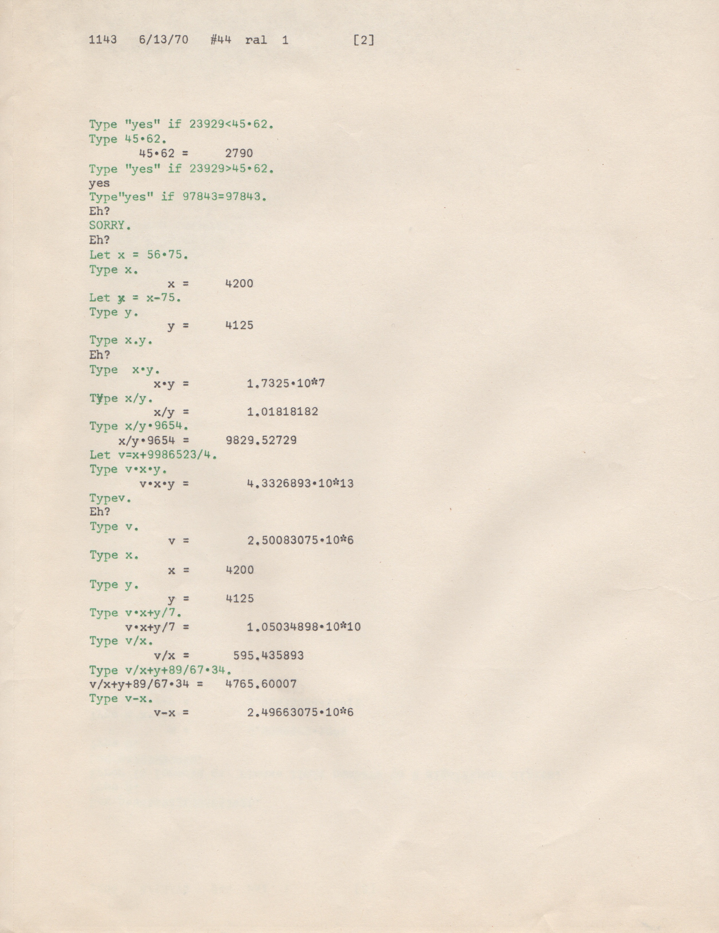 Transcript of actual JOSS session from 1970.